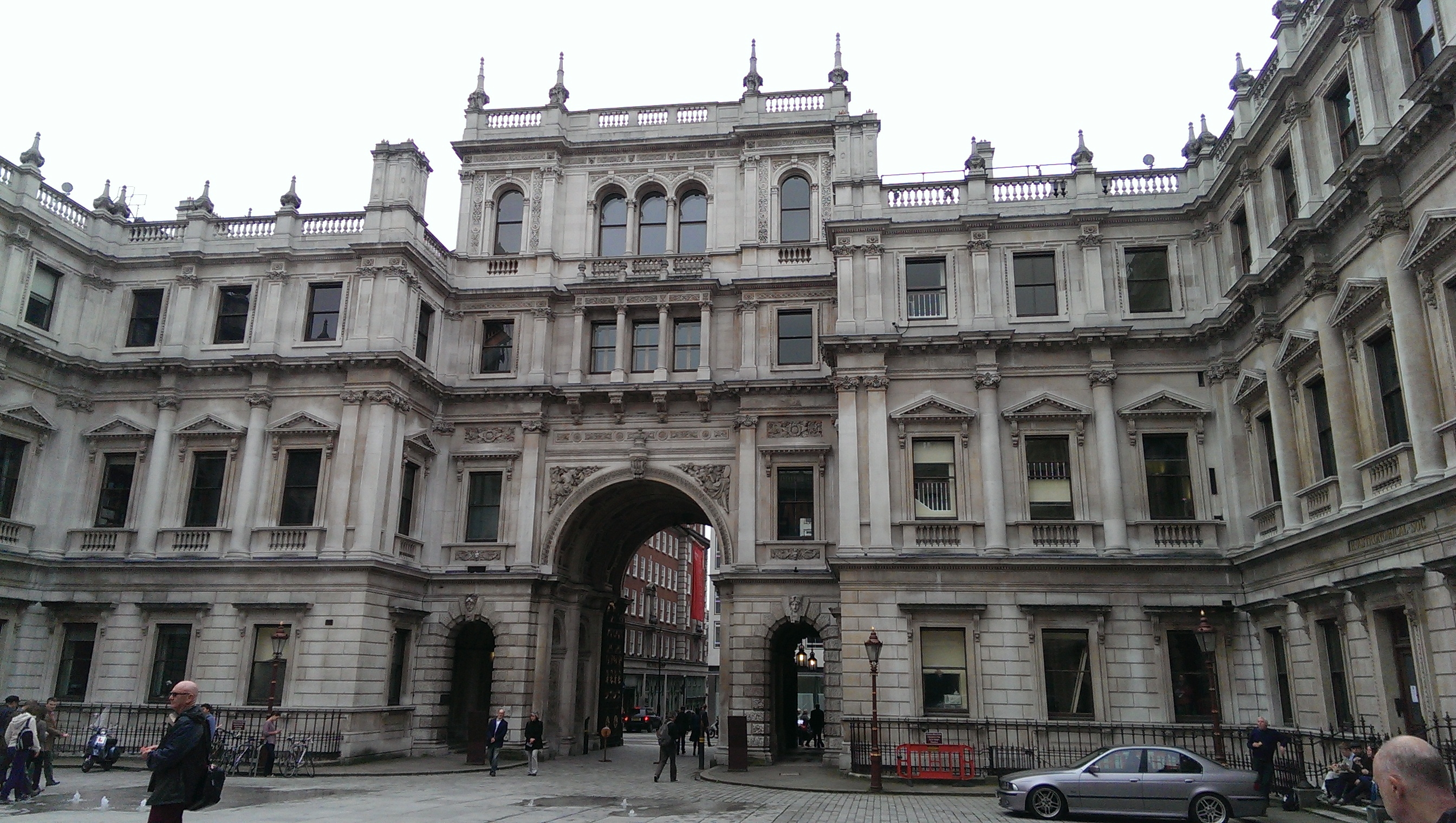 Burlington House on Piccadilly is the home of six 'learned societies'. This picture is from the courtyard looking towards Piccadilly with the Linnean Society occupying the tower and the building adjoining it on the right. The Geological Society occupies the building on the left.